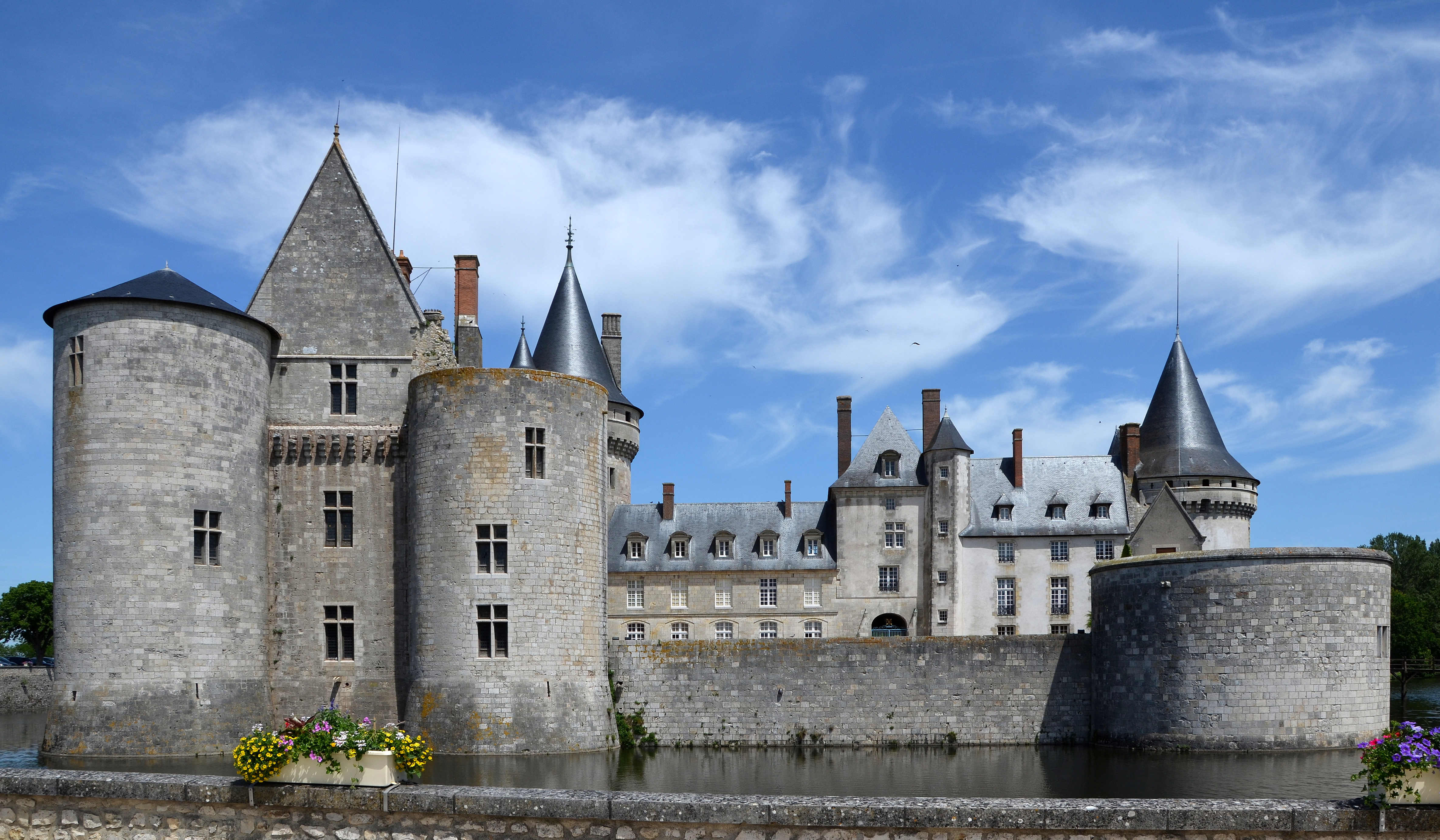 Castle of Sully sur Loire, Loiret, France